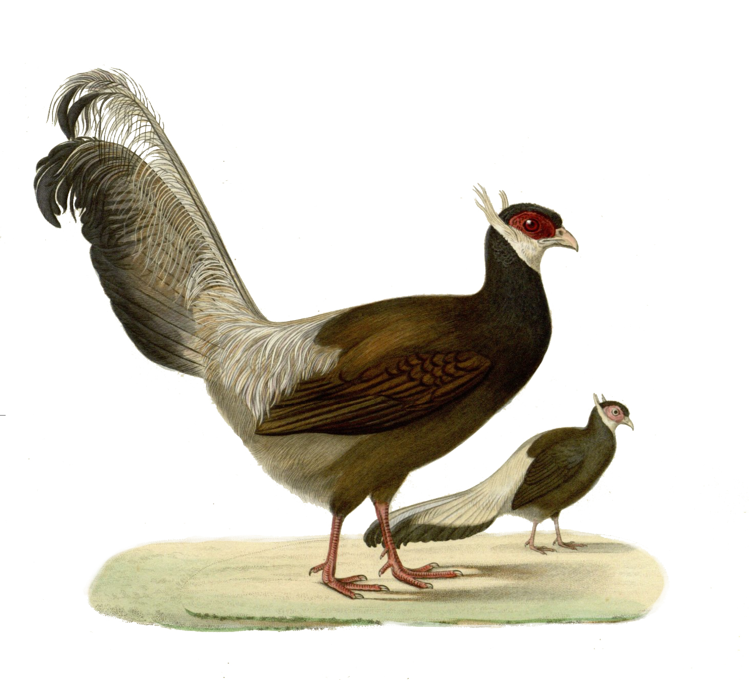 Crossoptilon auritum